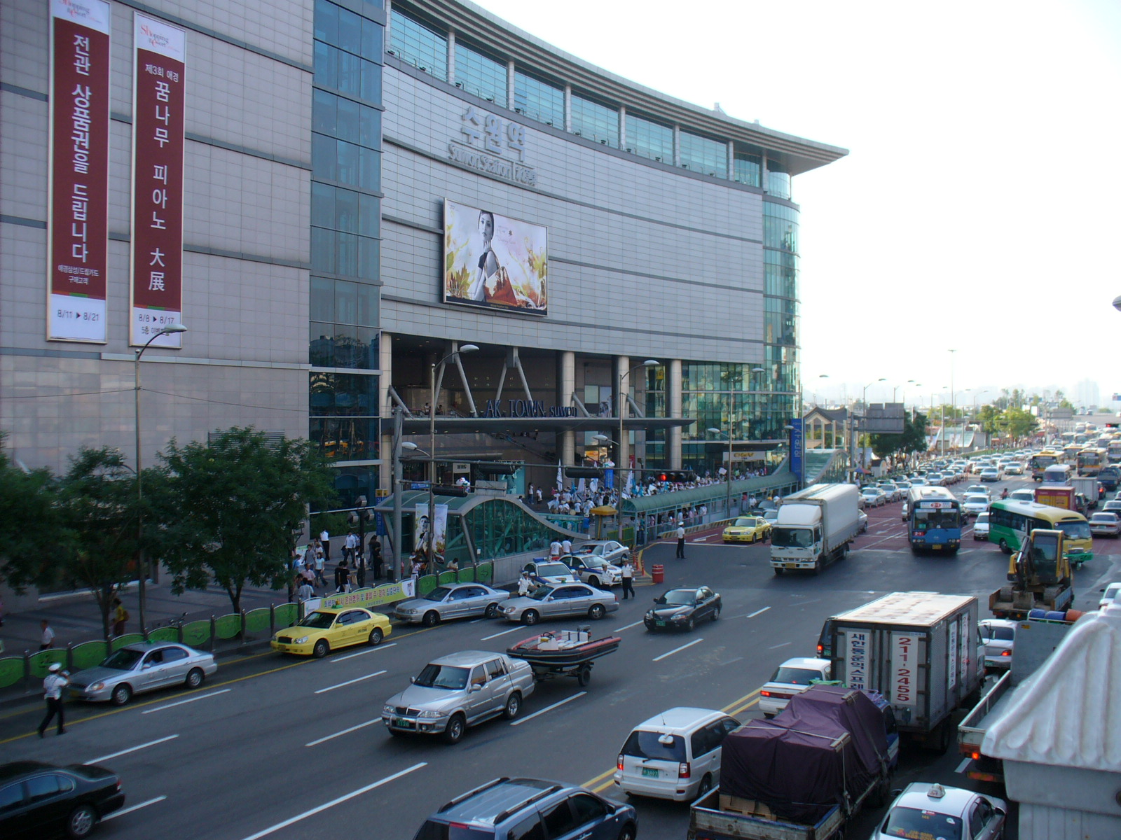 Suwon Station in Suwon city, South Korea